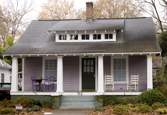 Typical one story, craftsman, Central chimney bungalow home from the historic Boylan Heights neighborhood in Raleigh, NC as it appeared in 2011.